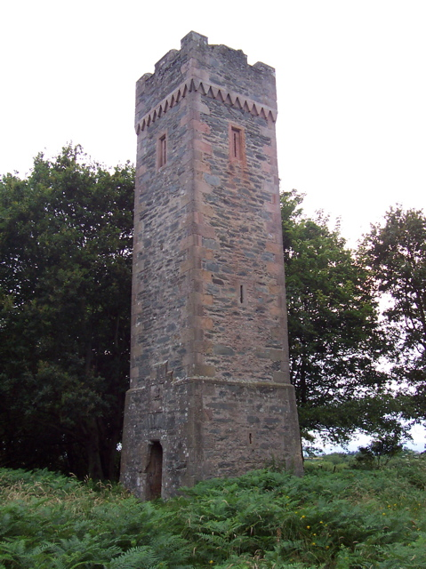 A photograph of Sampson's Tower, Ballykelly, taken in July 2005